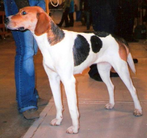 Anglo-Russian Hound female.